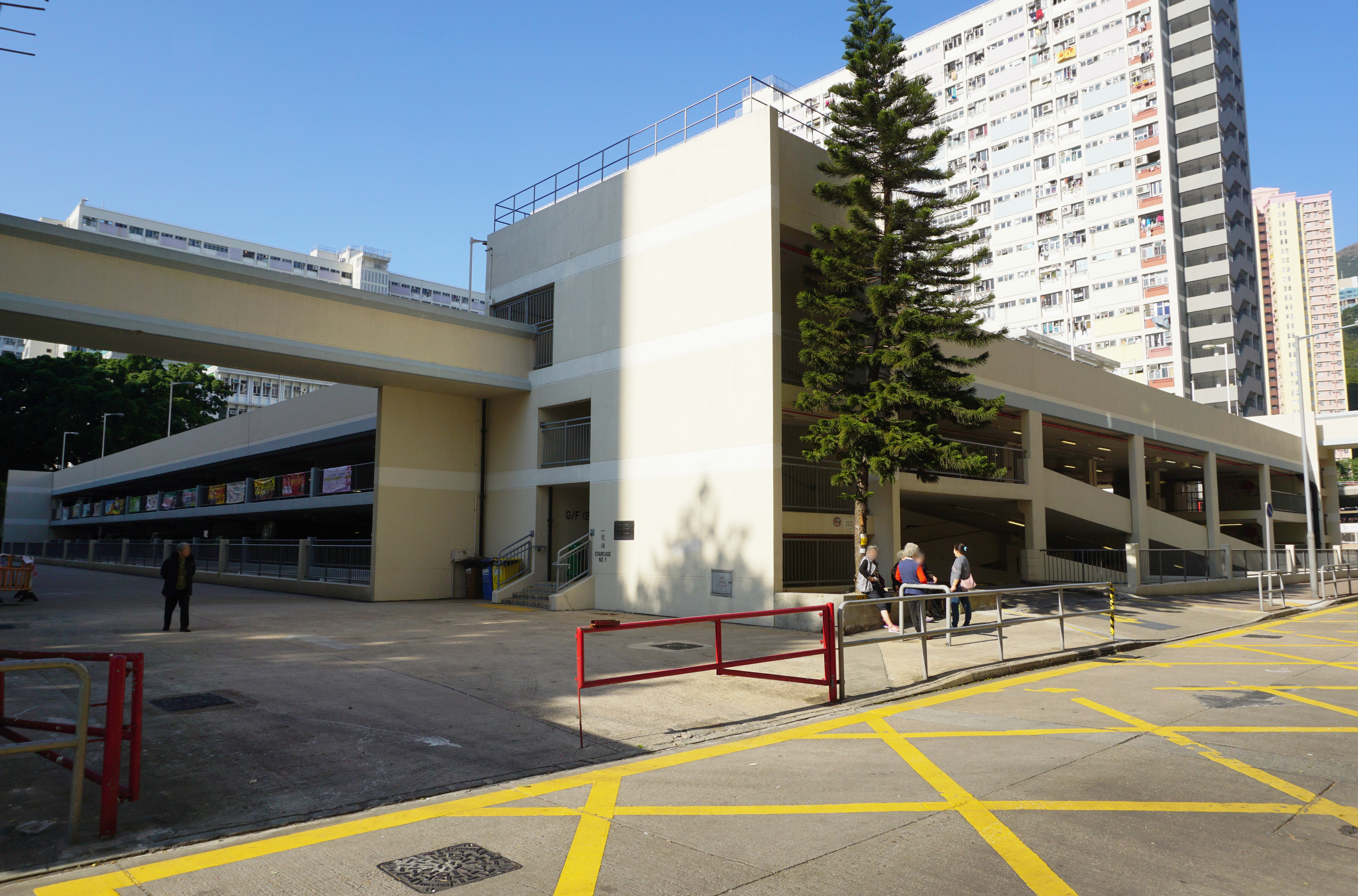 Choi Hung Estate in Choi Hung, Hong Kong.